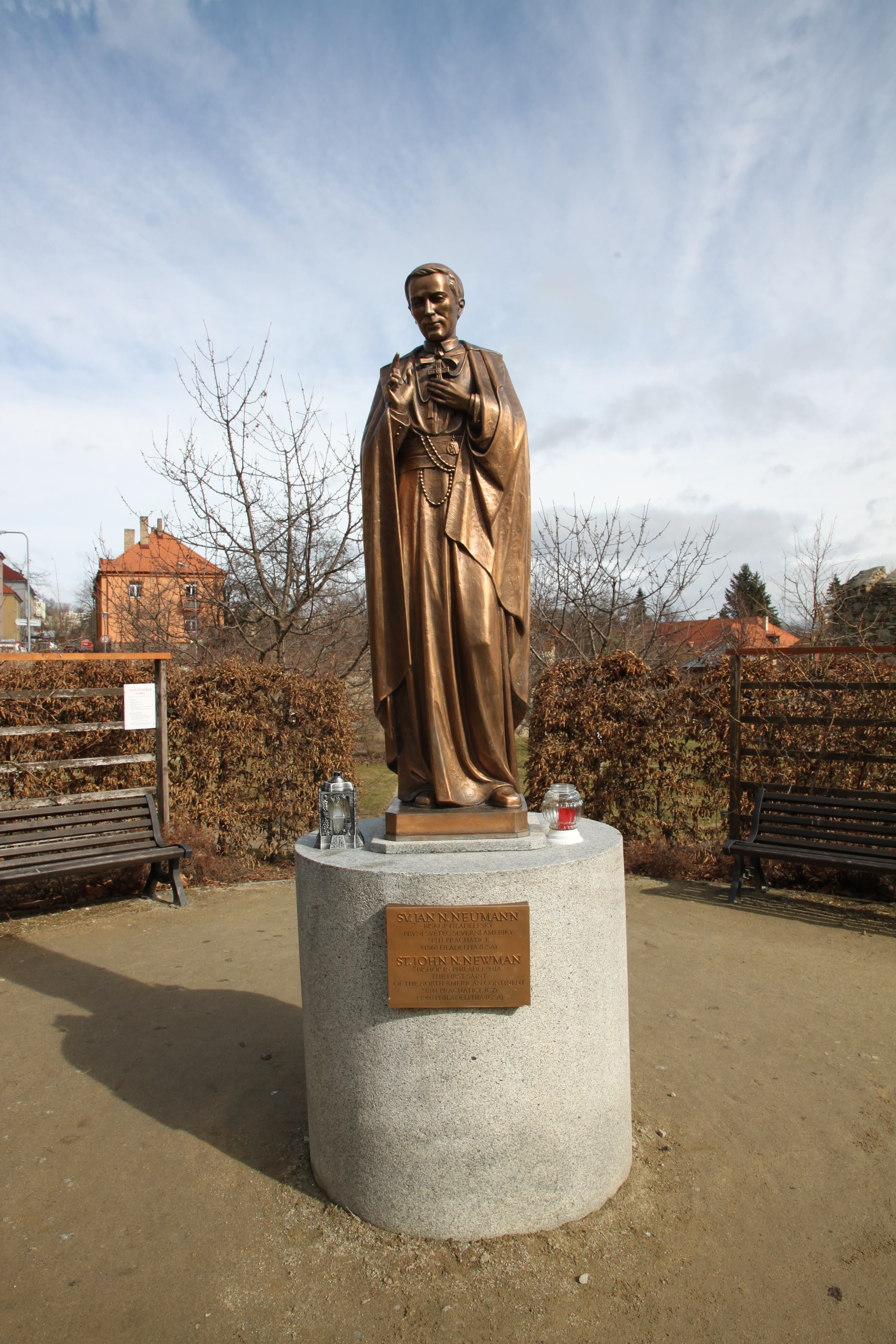 Statue of Saint John Neumann in Prachatice, South Bohemian Region, Czechia.